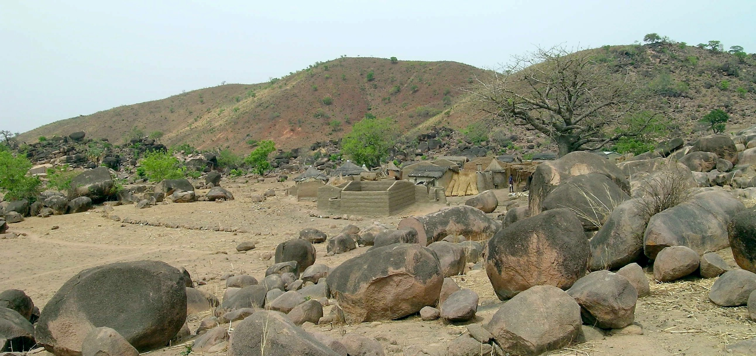 A homestead in the Nankanse/Tallensi area between Tongo and Tengzug (Upper East Region, Ghana)